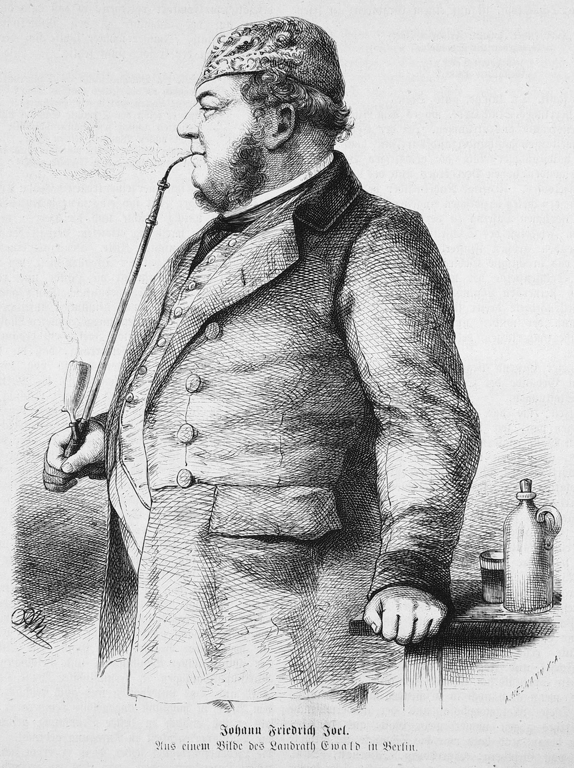 caption: "Johann Friedrich Joel.Aus einem Bilde des Landrath Ewald in Berlin."